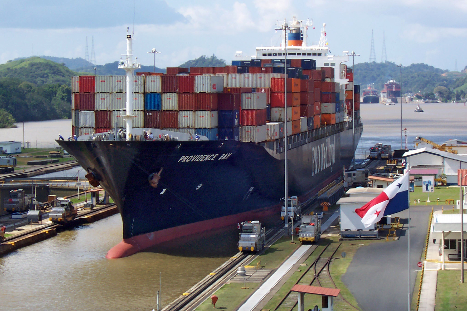 The Providence Bay enters locks in the Panama Canal